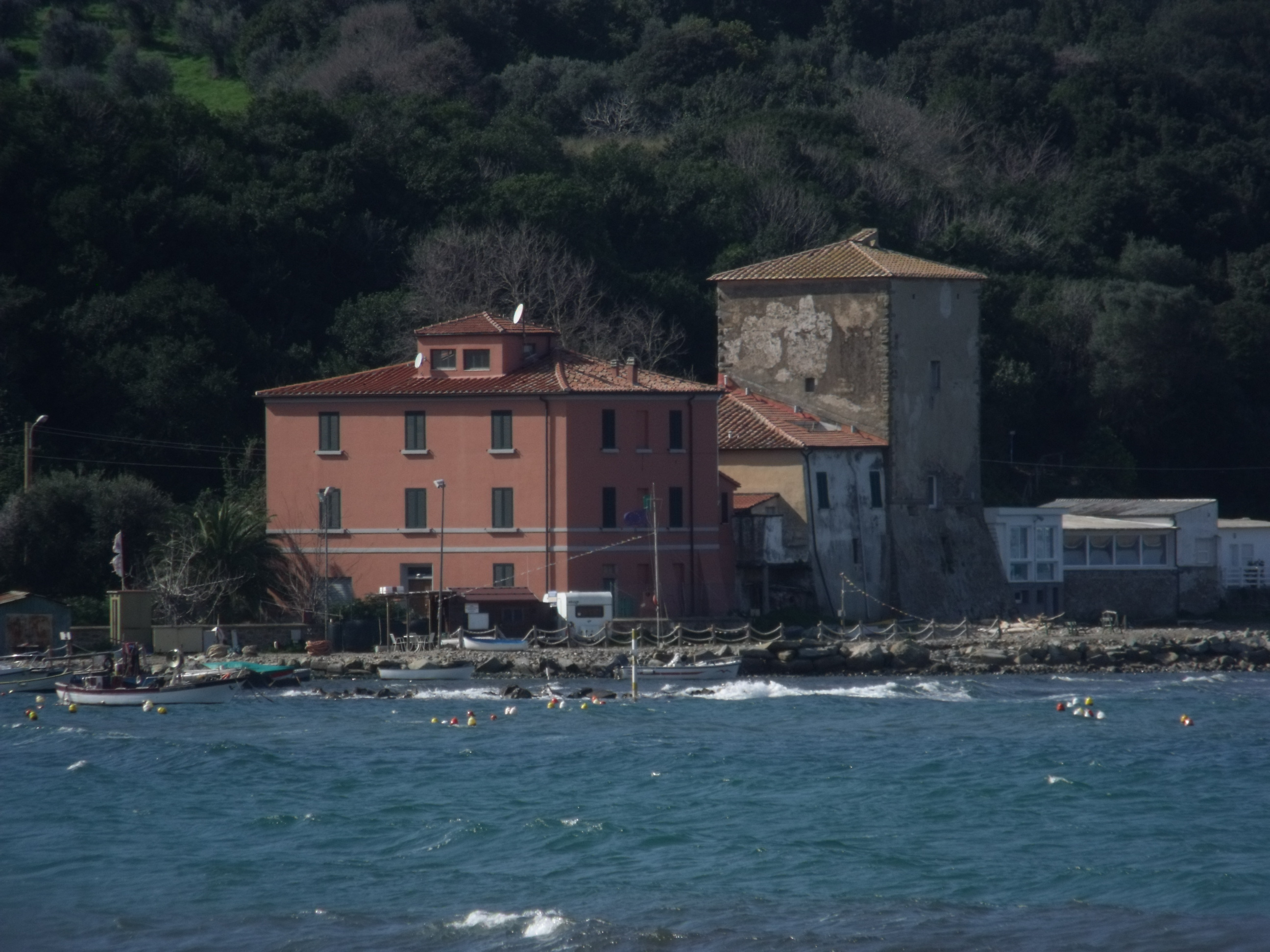 Harbour (Porto di Baratti) and the Tower (Torre di Baratti) on the Gulf of Baratti in Baratti, Piombino, Maremma livornese, Province of Livorno, Tuscany, Italy